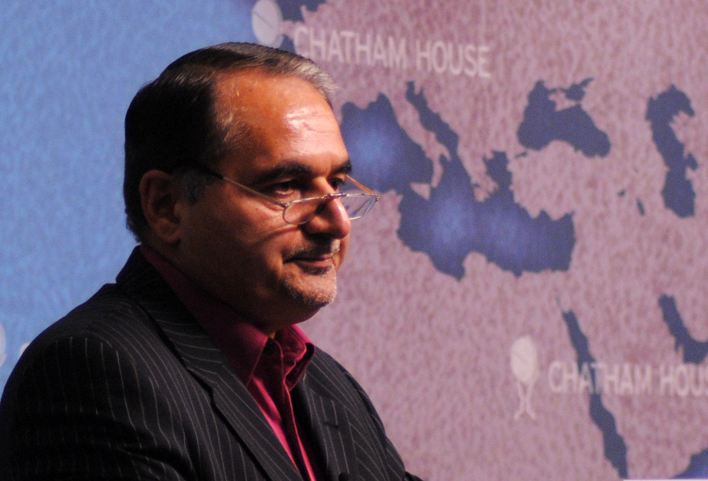 Nuclear Iran: Negotiating a Way Out, 4 February 2013